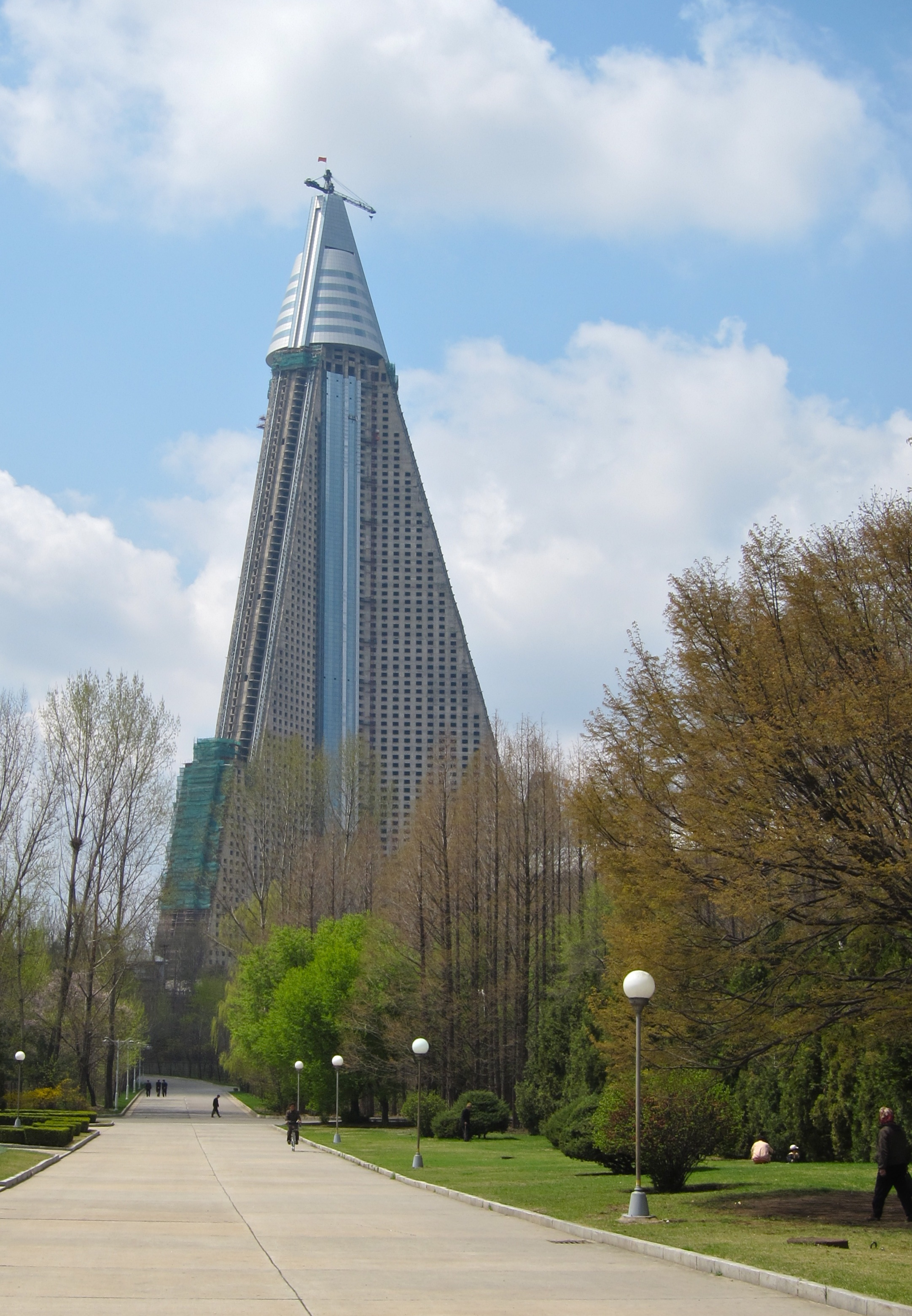 Ryugyong Hotel, Pyongyang, DPRK (North Korea).